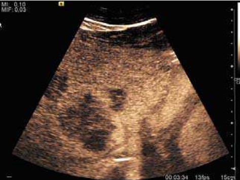 Contrast-enhanced ultrasound of a metastasis of a colon cancer in the liver